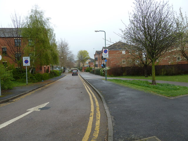 Looking from the A61 into Broomspring Lane